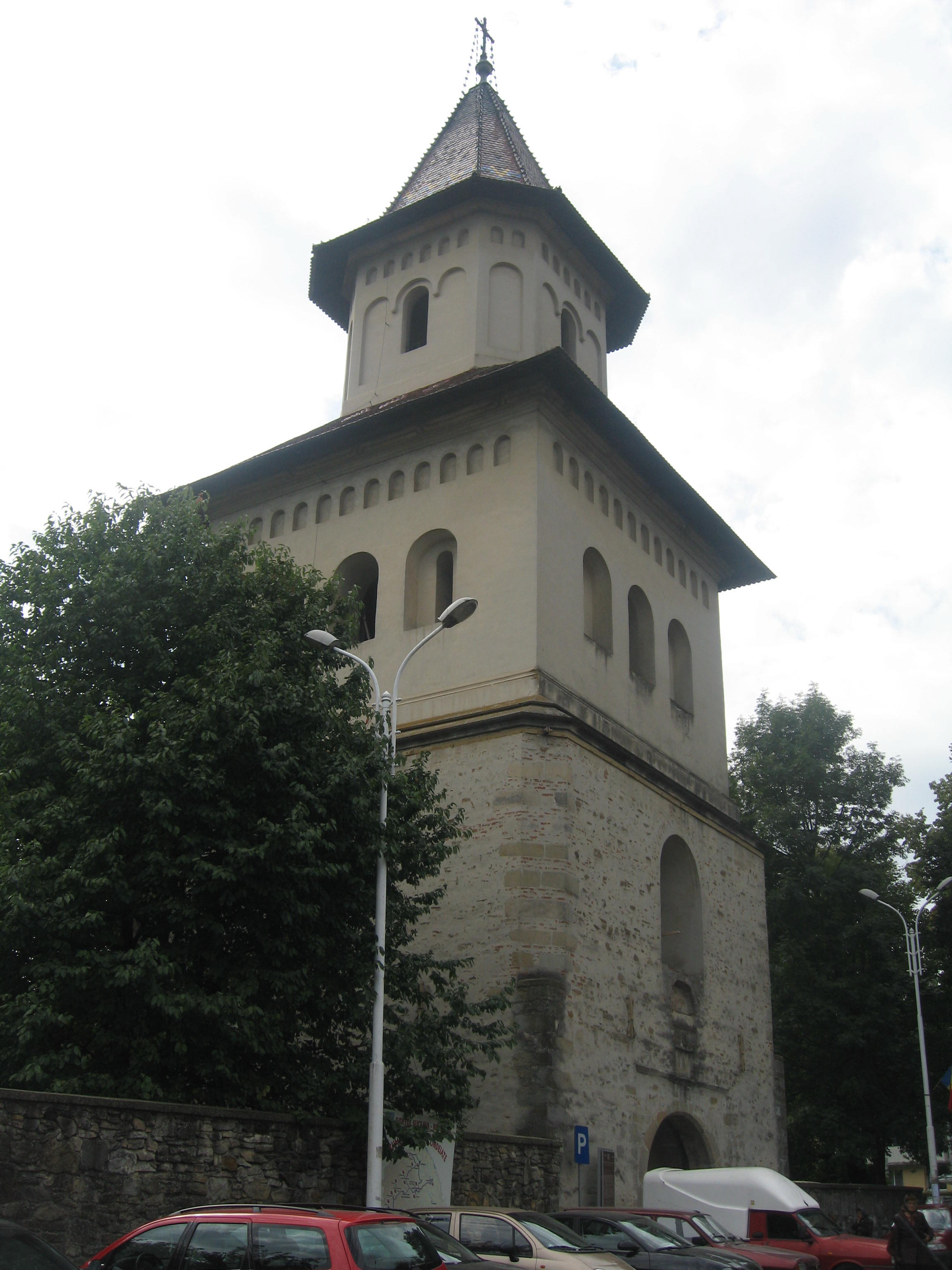 St. John the New Monastery in Suceava - the bell tower.